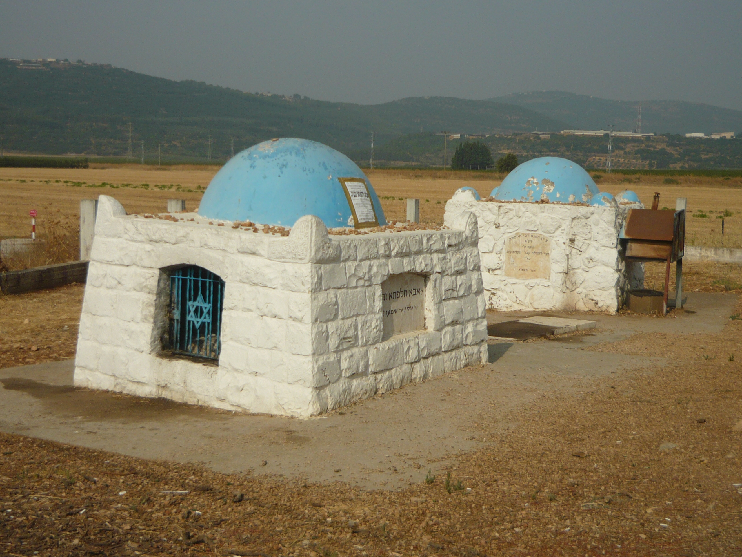 grave of Rabbi Halafta קברו של רבי חלפתא ליד מר'אר שבגליל